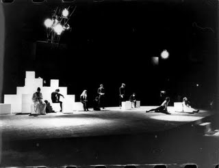 Mond und Leopard von Bijan Mofid